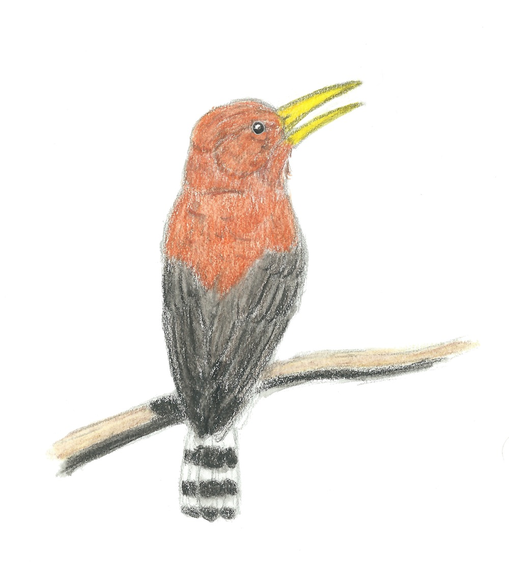 Life restoration of Messelirrisor grandis, a small relative of hoopoes from the Eocene of Germany